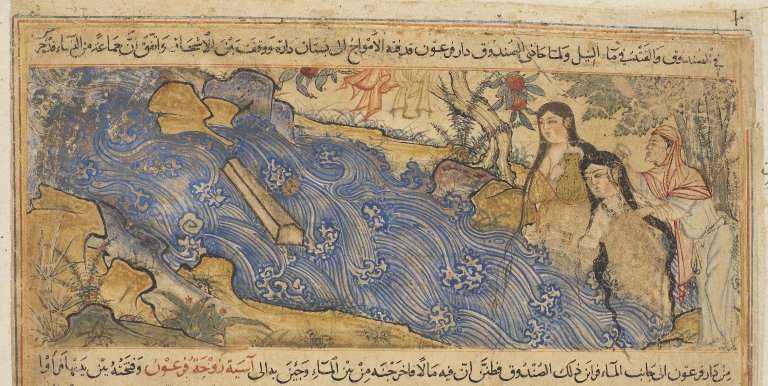 Asiya, wife of the Pharaoh, finds baby Moses in the Nile.